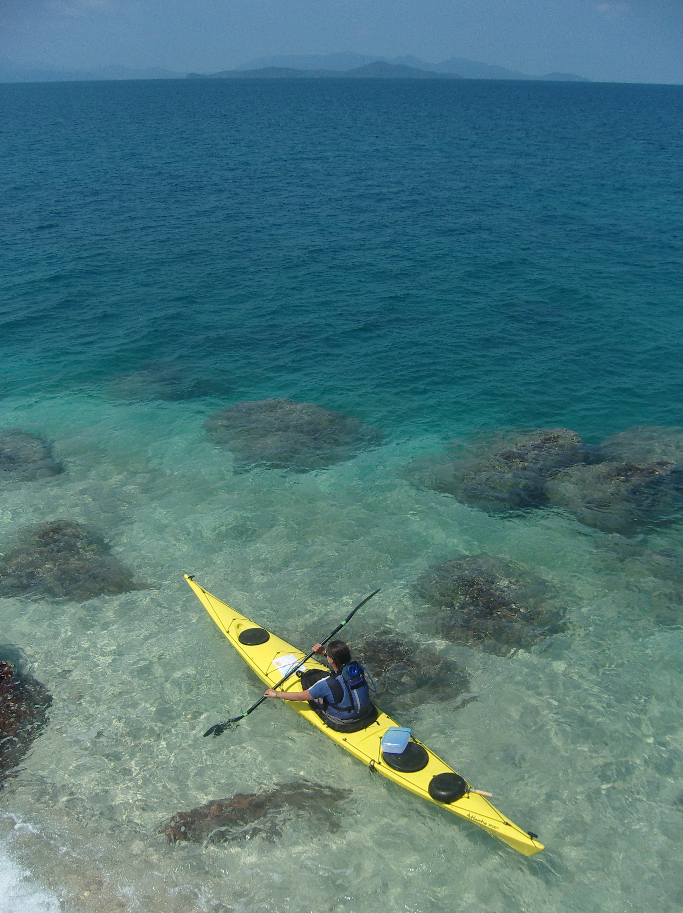 Kayaking back towards Ko Chang with